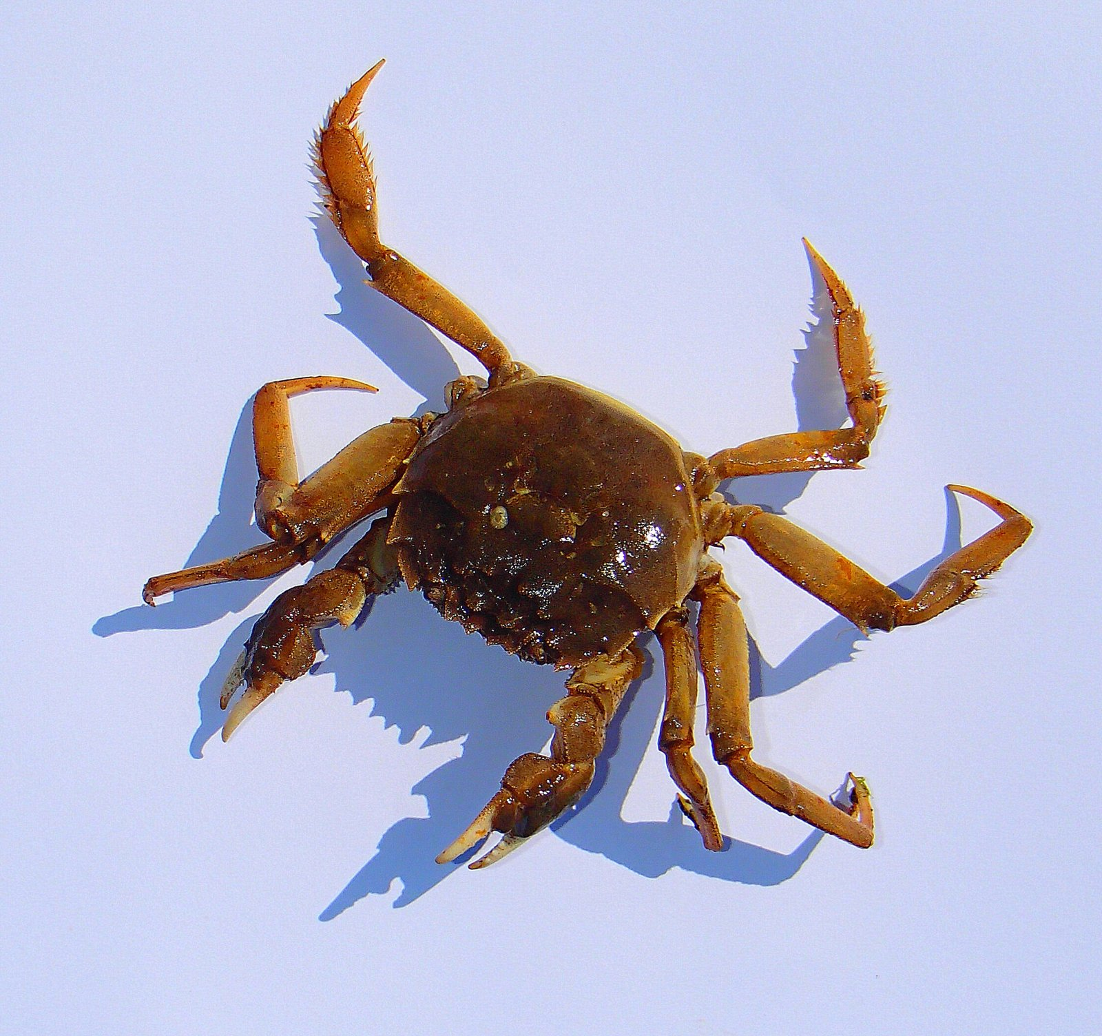 Crab wolhand on with background